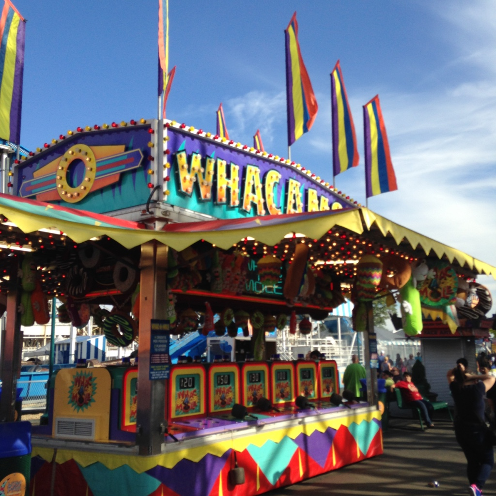 Coney Island attraction "Whack a mole" Picture taken on August 23rd of 2015